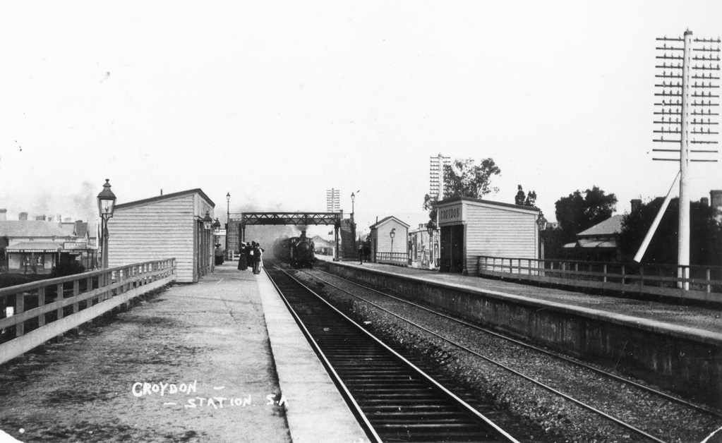 Croydon, South Australia train Station in 1915